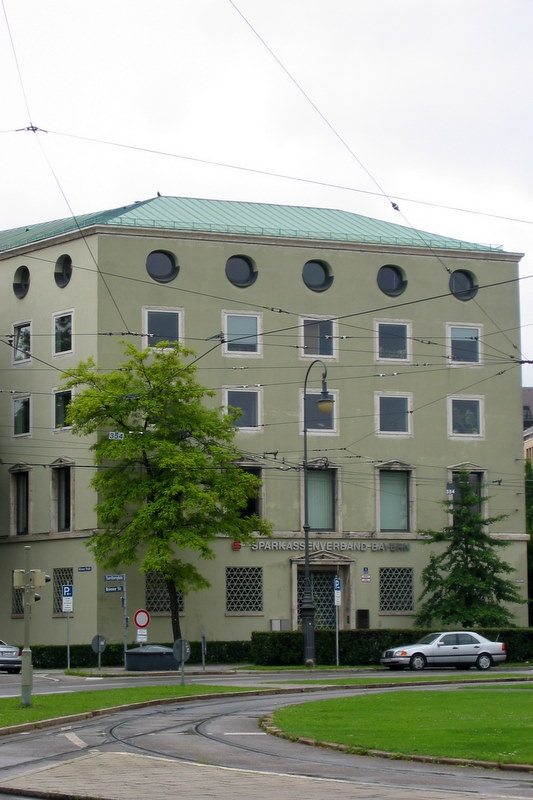 Bayerische Landesbausparkasse (Wiedemann, 1955/56)